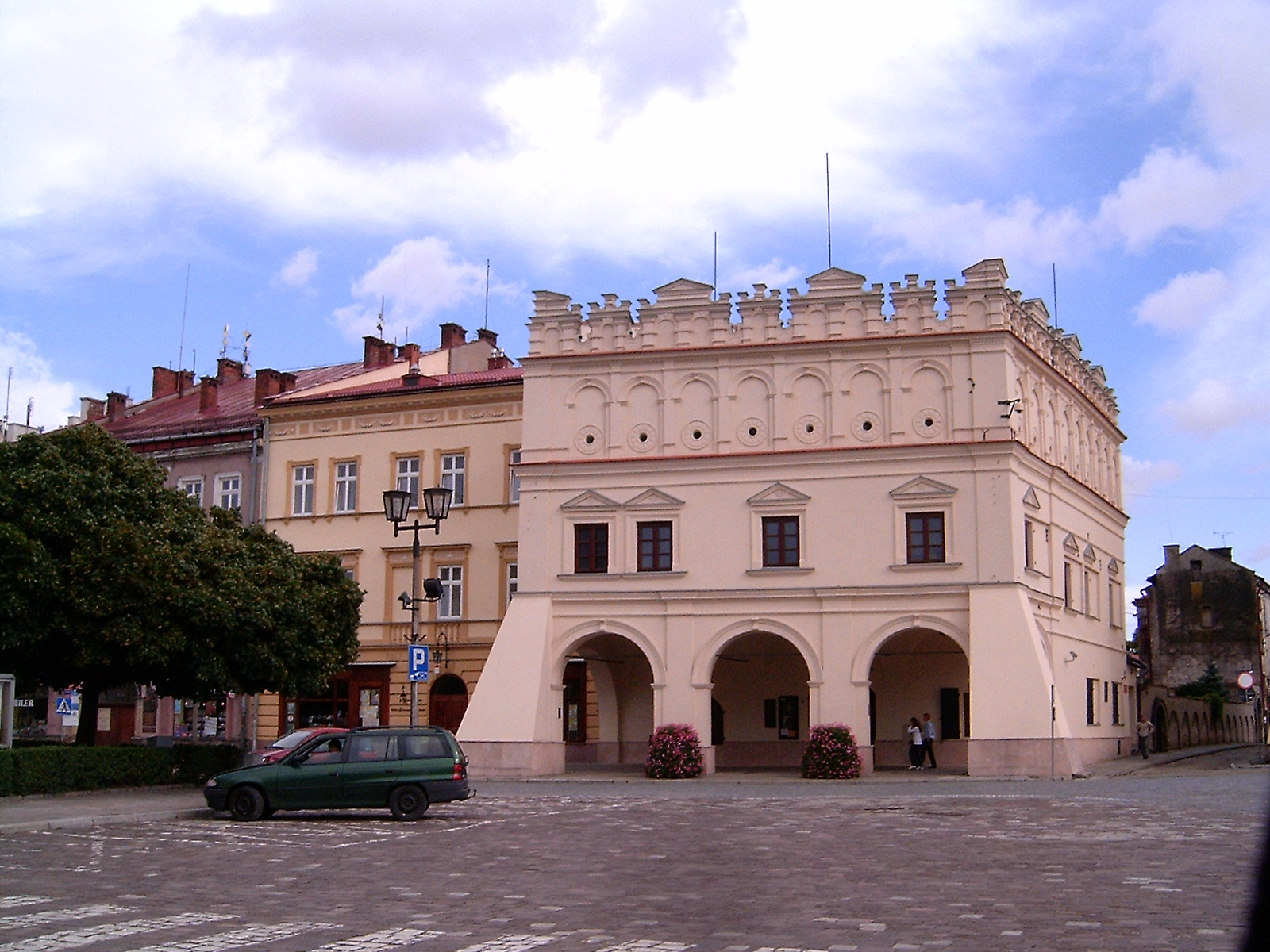 Jarosław, market,old town, Museum Tenement of Ordettich In Jarosław